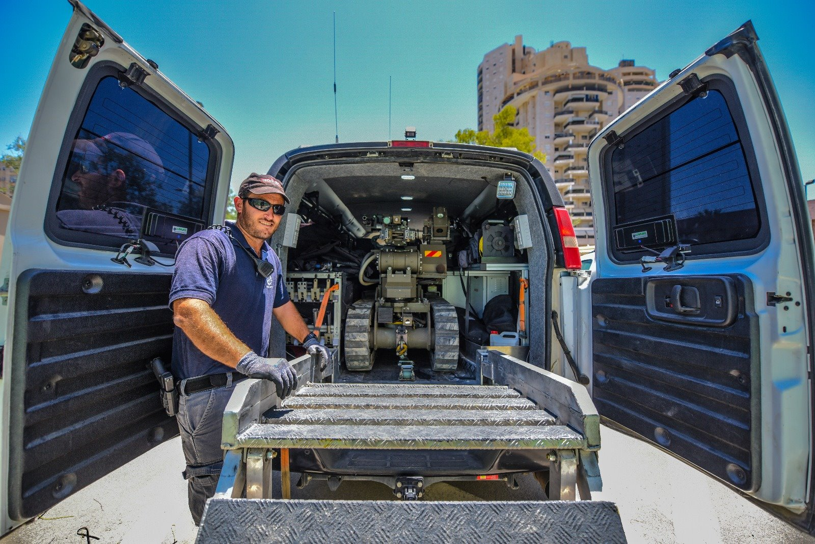 Israeli Police EOD and bomb disposal unit